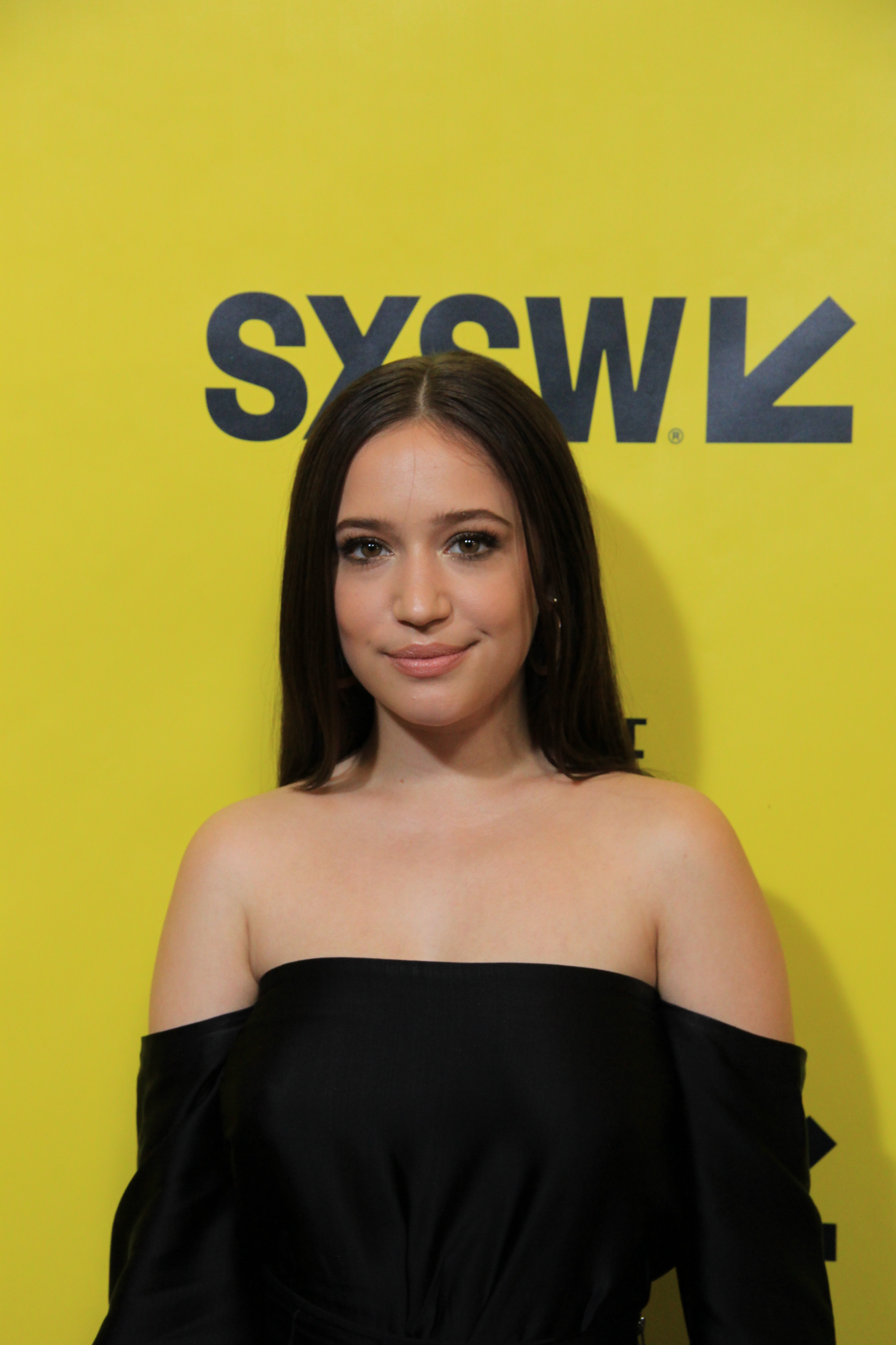 Gideon Adlon at SXSW Red Carpet premiere of BLOCKERS